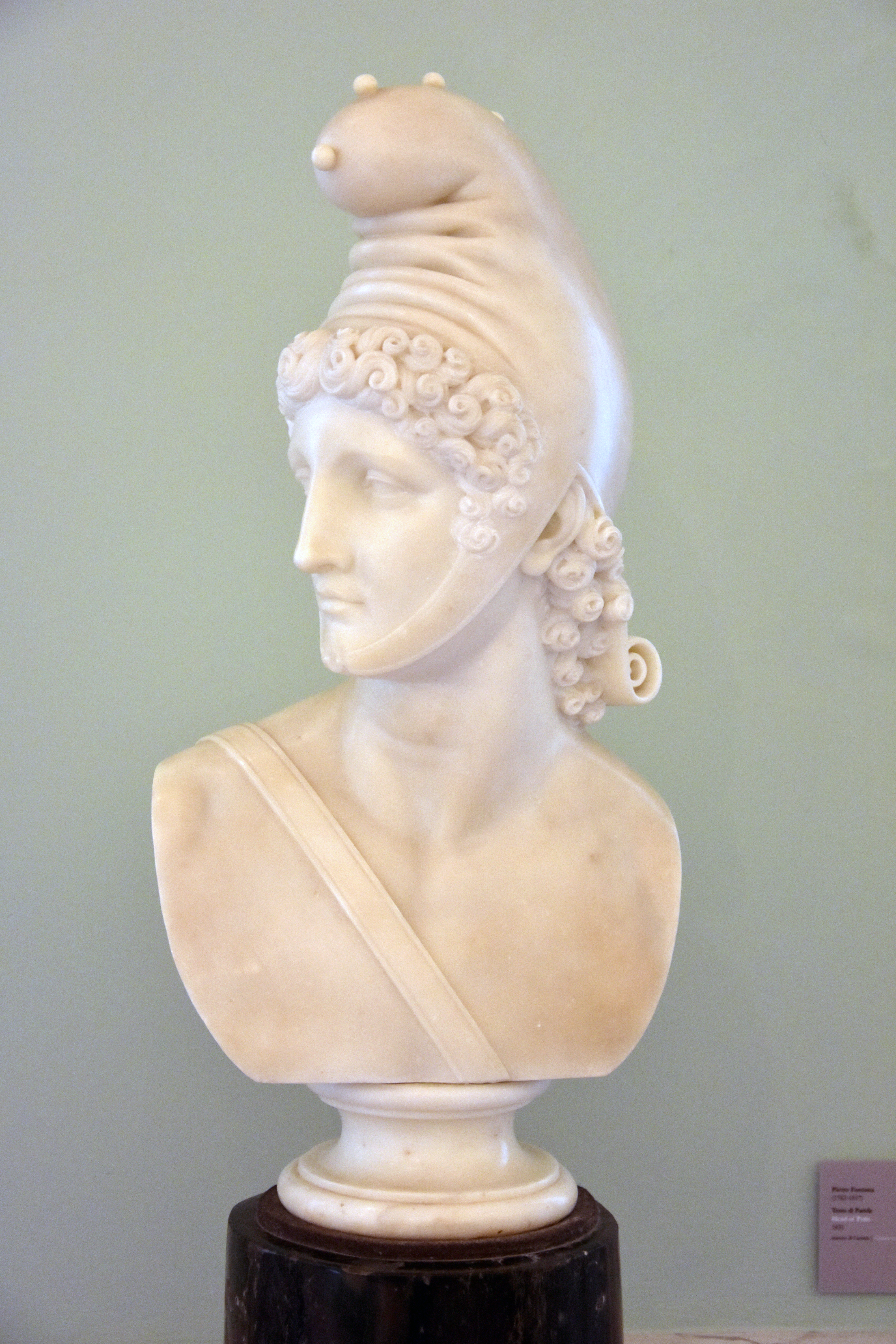 Head of Paris, interior of Villa Carlotta in Tremezzo, municipality of Tremezzina, province of Como, Italy.